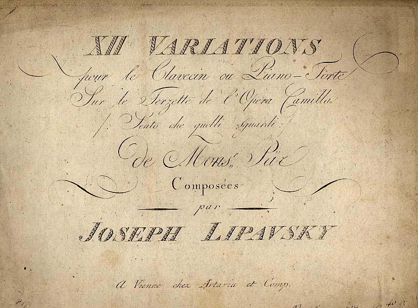 12 Variations pour le Clavecin